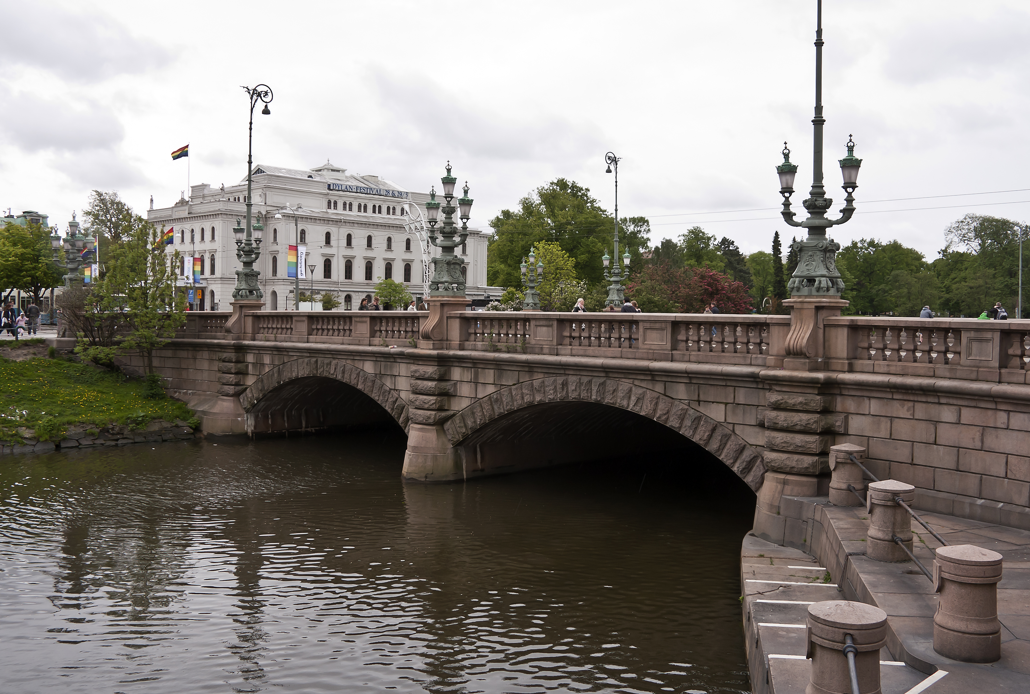 Kungsportsbron (Kings Gate Bridge) in central Gothenburg, Sweden.